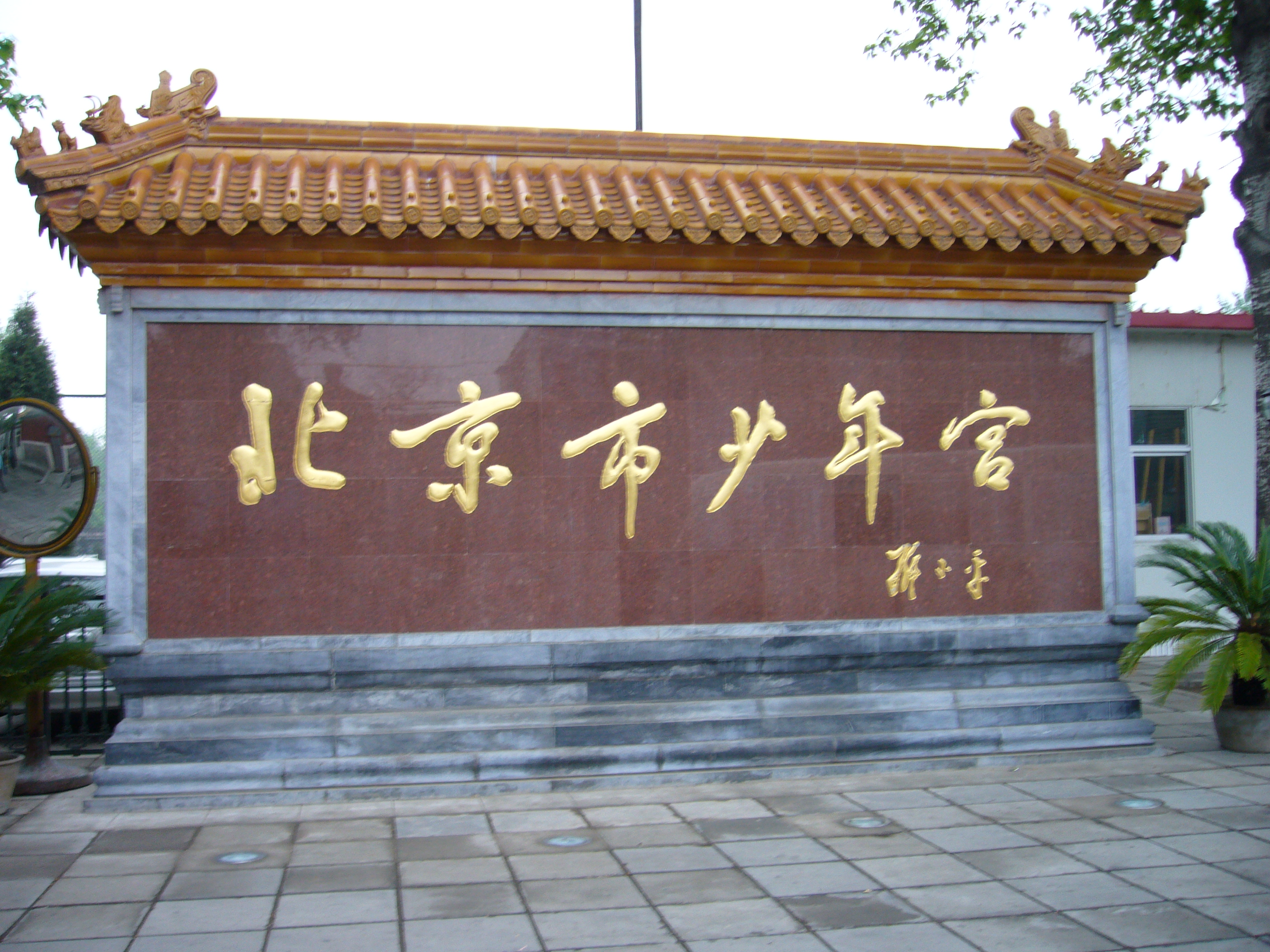 Beijing Children's Palace, Chinese name at the entrance